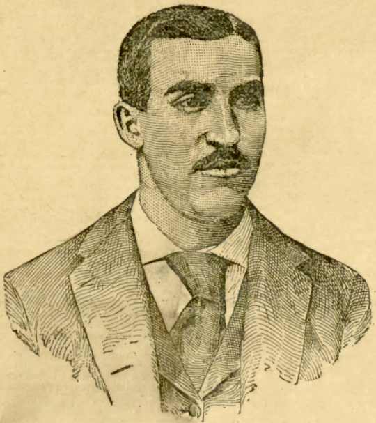 Front page of Sporting Life featuring drawing of George Cuppy